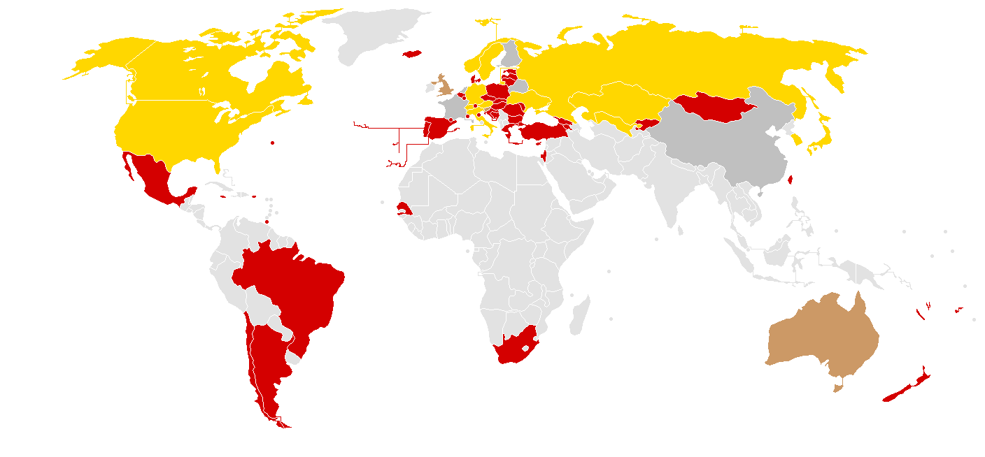 Countries with at least one gold medal Countries with at least one silver medal Countries with at least one bronze medal Countries that didn't get any medal Countries that did not participate